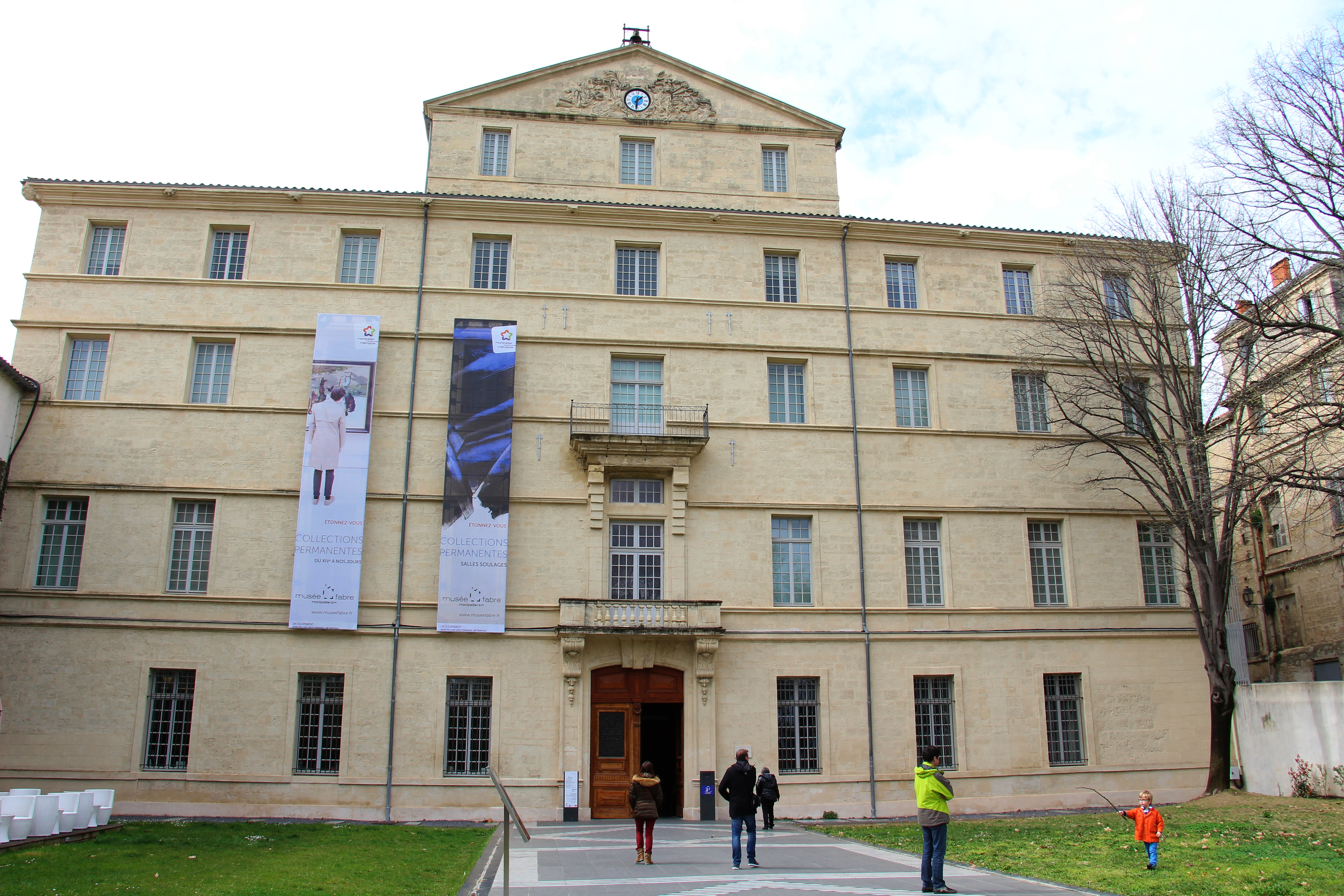 Écusson - Boulevard Bonne Nouvelle In 1825, the town council accepted a large donation of works from François-Xavier Fabre, and the museum was installed in the refurbished Hôtel de Massillian, built in the 18th century. Arch. Fovis & Boué 1825-28. It has been enlarged in the 19th century, and underwent a big renovation and got a modern extension recently. Arch. Brochet-Lajus-Peyo with Emmanuel Nebout 2003-07.